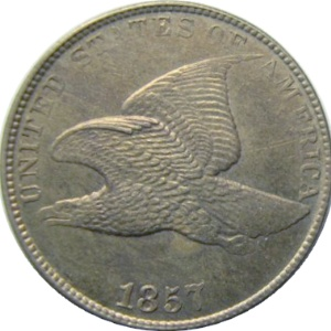 1857 Flying Eagle cent obverse